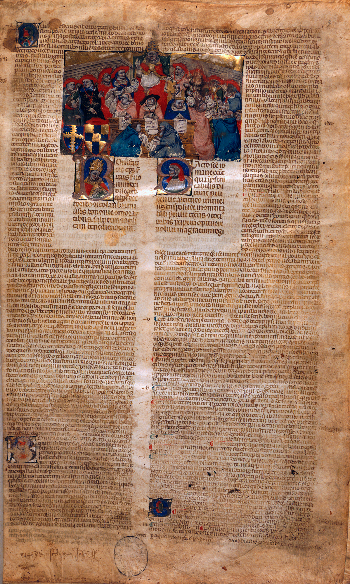 Decretals of Pope Boniface VIII. The source says: "The book’s only illustration (image no. 1) appears on the opening page of the manuscript and shows Boniface consulting his cardinals, who assisted him in the governance of the Church and advised him on matters of faith and discipline. Scribes of the papal chancery (the office responsible for the production of official documents) are shown recording the proceedings."